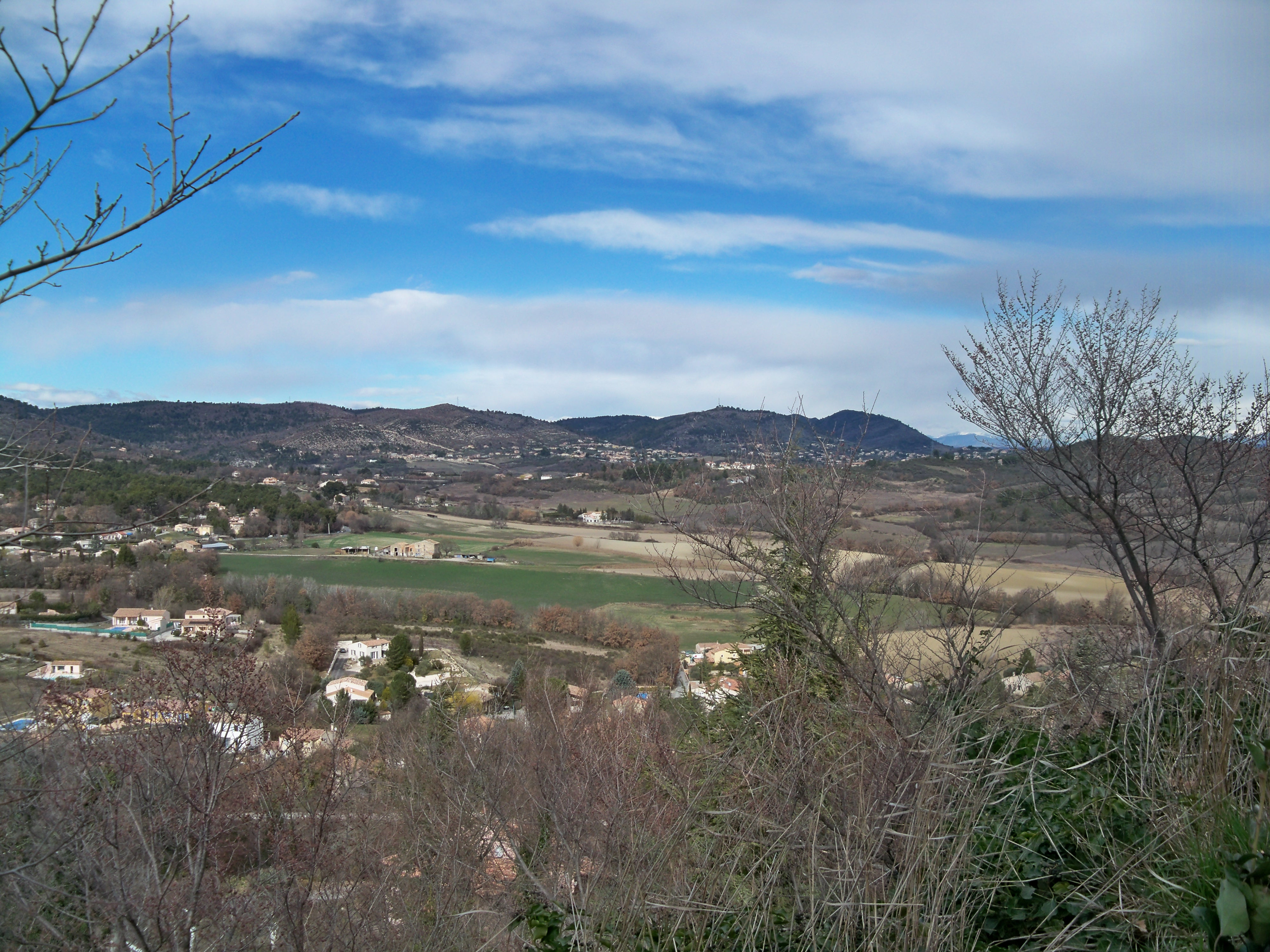 Landscape from Pierrevert